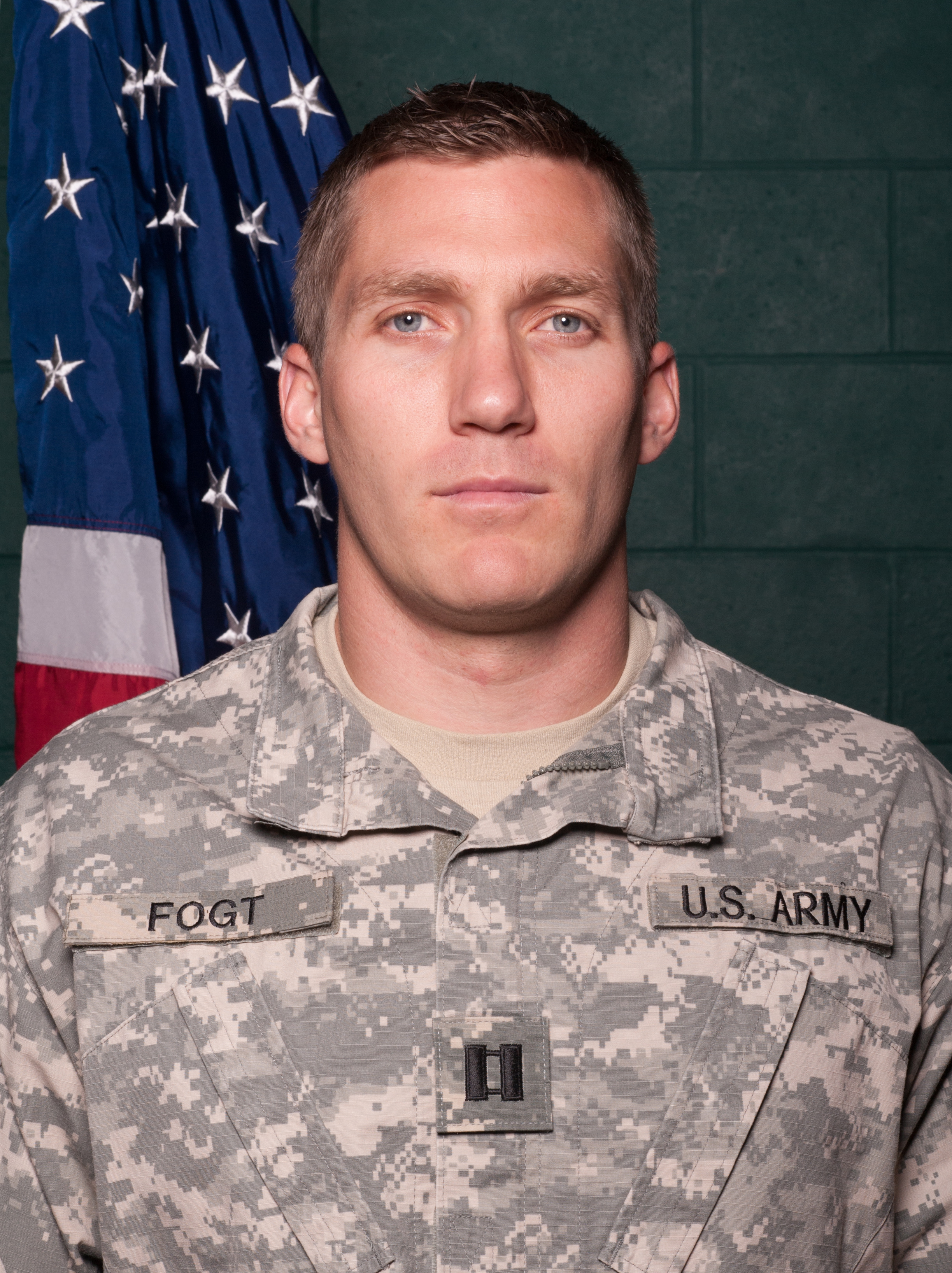 U.S. Army World Class Athlete Program bobsledder Capt. Chris Fogt of Alpine, Utah, will be the brakeman aboard USA-1 in the four-man bobsled event at the 2014 Olympic Winter Games in Sochi, Russia.